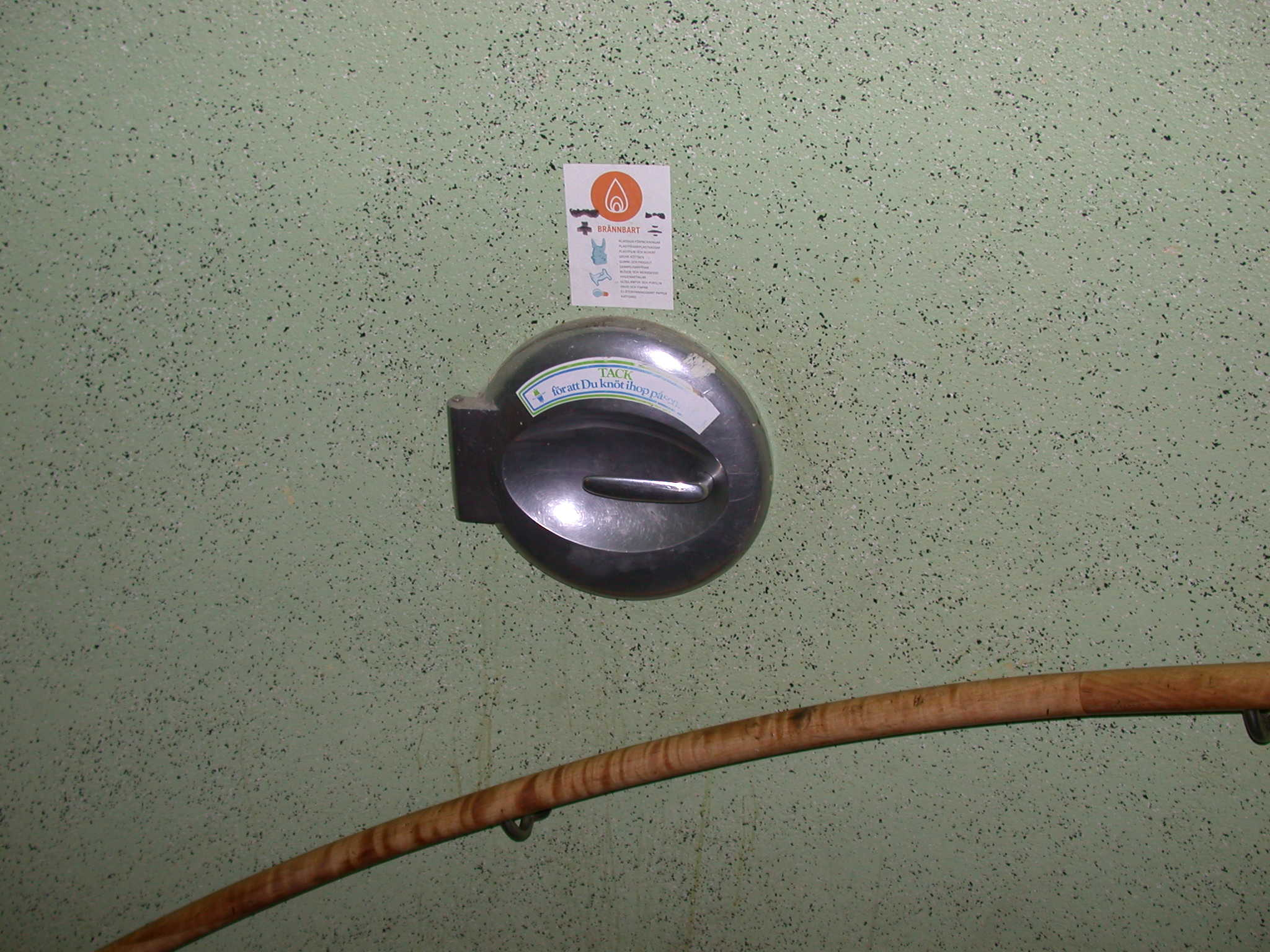 Swedish refuse chute